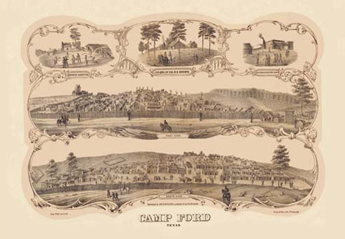 Lithograph of Camp Ford, Texas, made by a former prisoner of war.